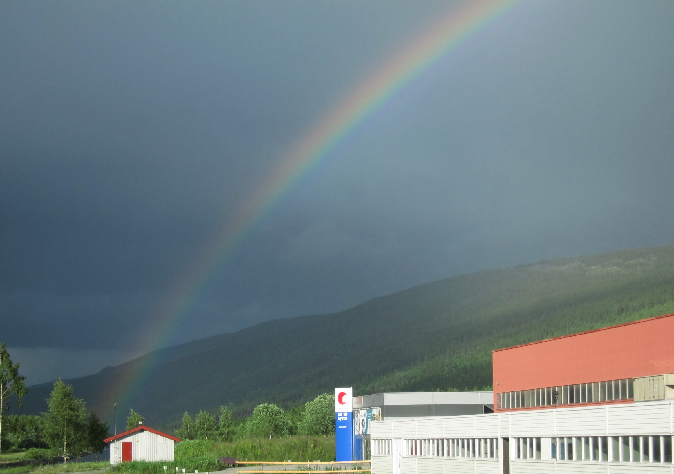 Rainbow over Hallingdal valley, Norway